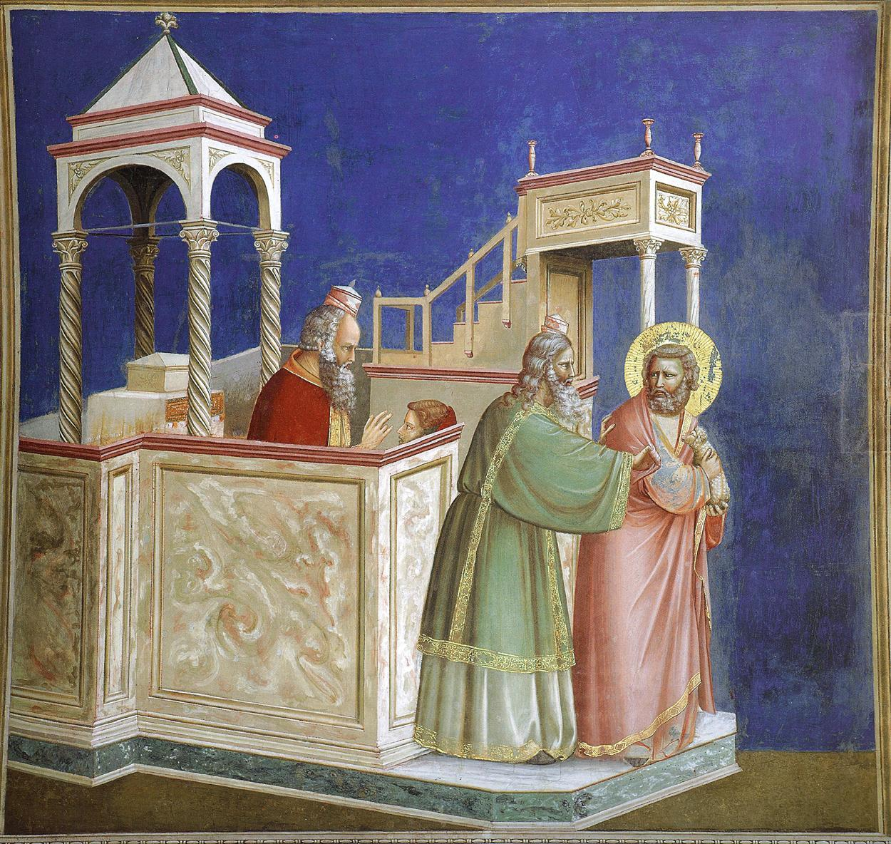 Legend of St Joachim